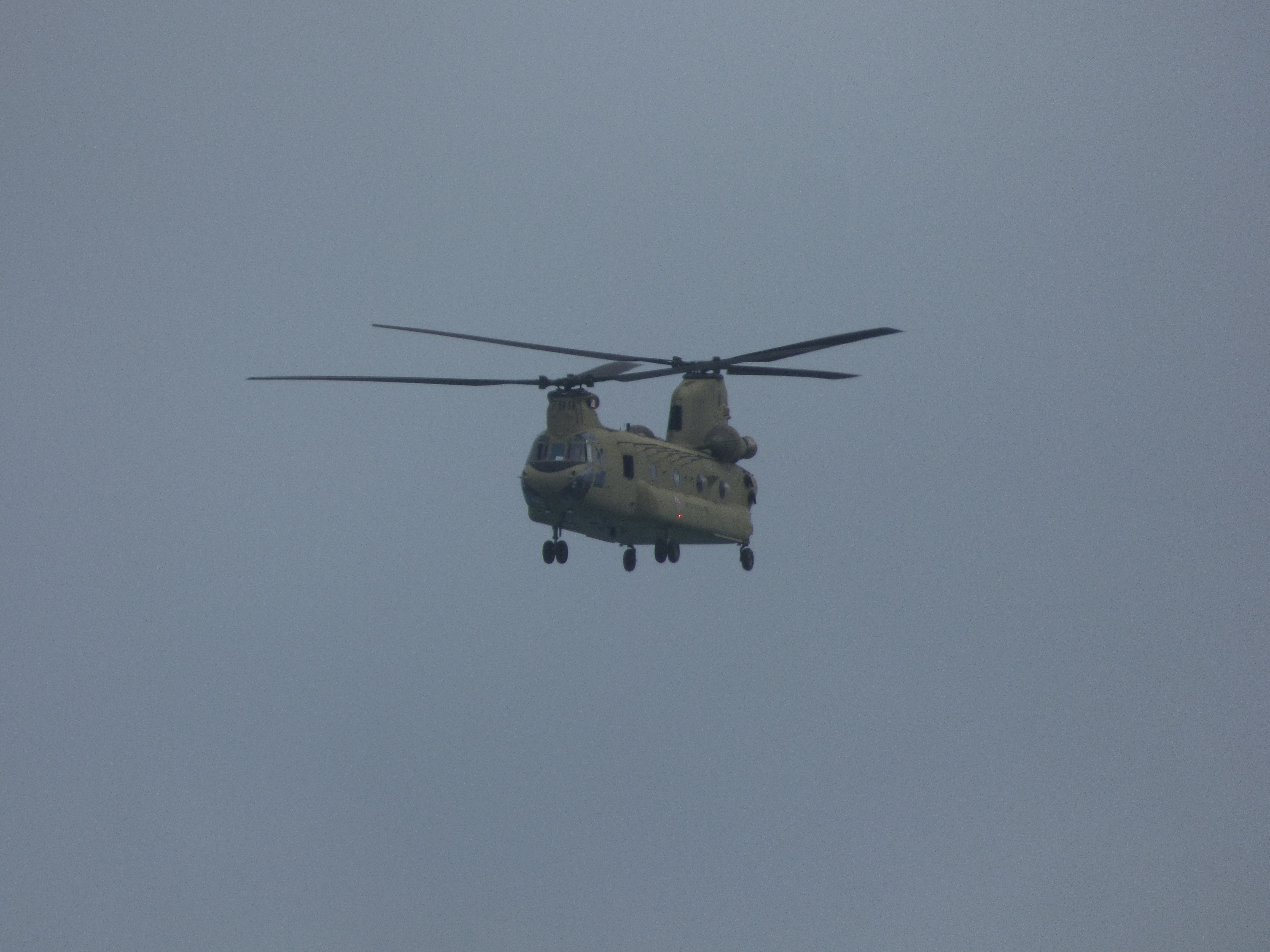 Prosopis pallida (Kiawe, keawe, algaroba, mesquite) Twin rotor large helicopter at Kanaha Pond, Maui, Hawaii. January 31, 2017 #170131-0758 Image Use Policy